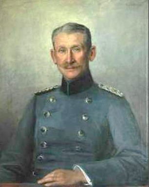 Wilhelm Engelhard von Nathusius (the younger), general, painting